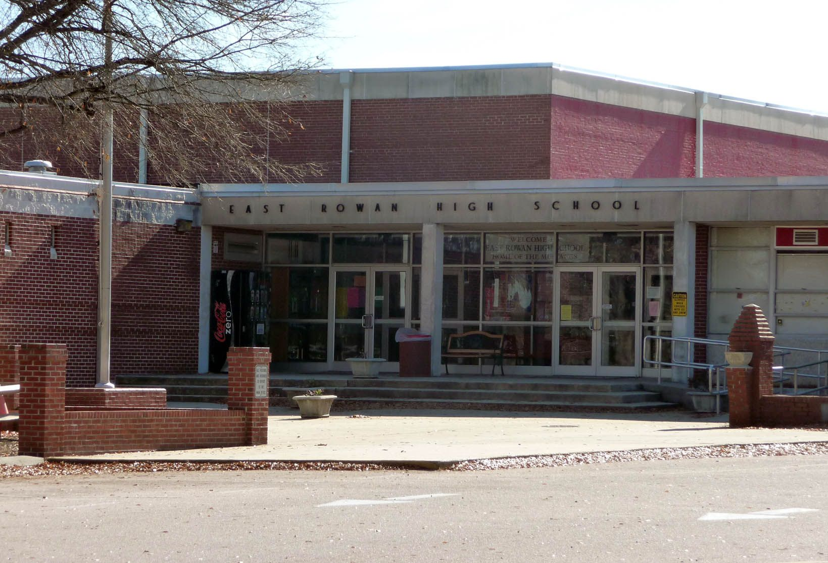 View of the entrance to East Rowan High School in Granite Quarry, North Carolina.